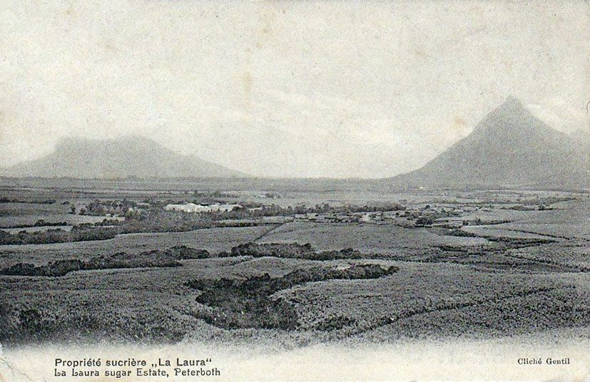 La Laura Sugar Estate